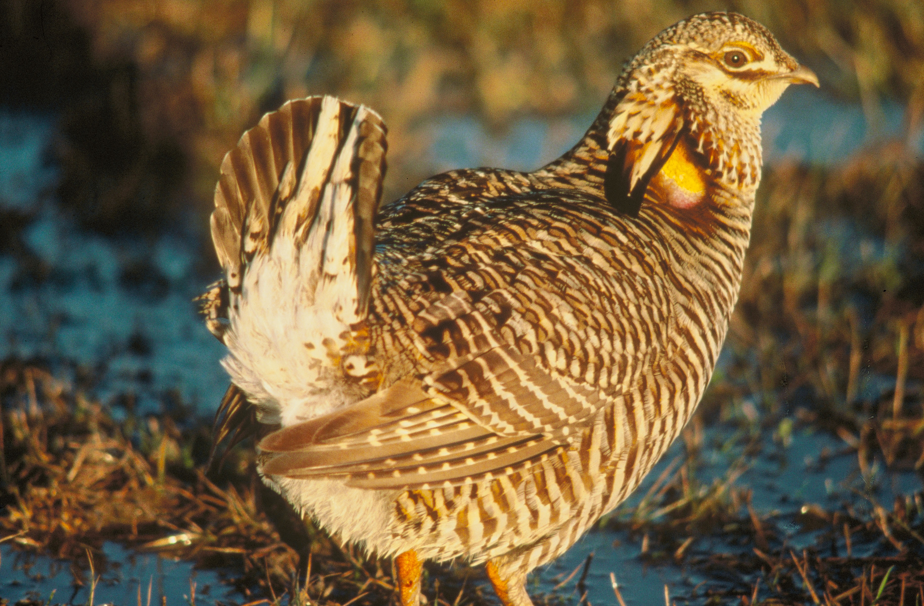 Attwater's Prairie chicken (Tympanuchus cupido)